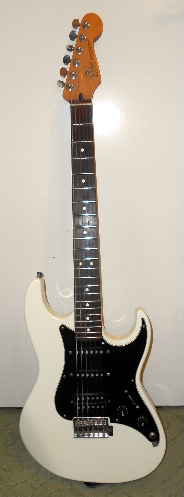 This guitar is an early example of a Fender Stratocaster type with a Humbucker pickup at the bridge.